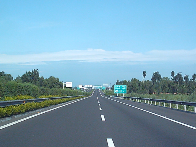 North 6th Ring Road. Taken by Wikipedian DF08 in July 2004